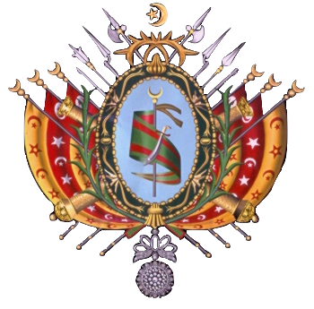 modern emblem supposed to represent the Husainid Dynasty. Probably a copyright violation from [1], apparently ultimately taken from a website " now no longer in existence.